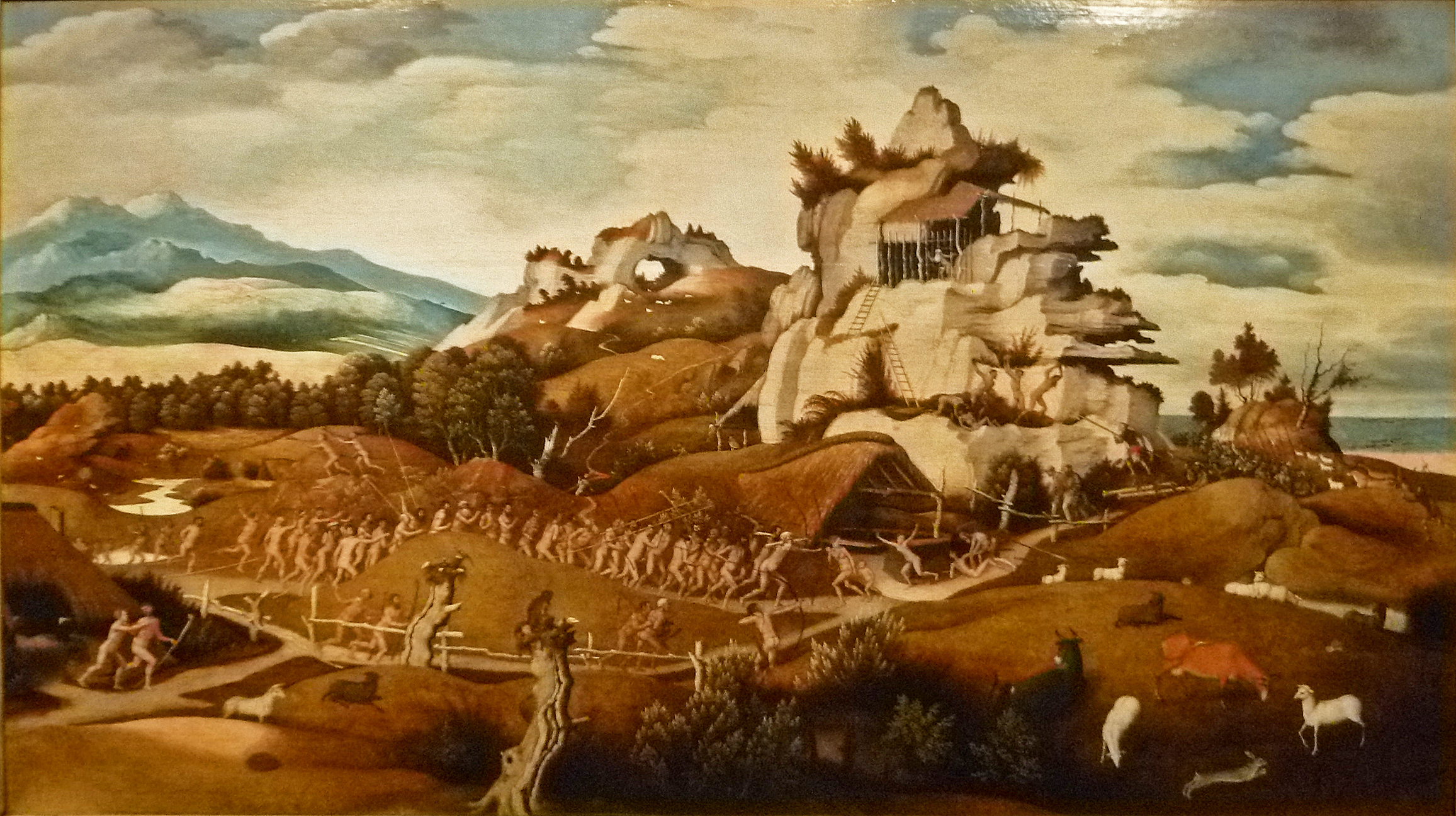 "Landscape with an episode from the Conquest of America" (Haarlem, c. 1545); oil on panel by Jan Jansz Mostaert; first painting showing the Spanish conquest of America - probably Coronado in New Mexico; Rijksmuseum, Amsterdam